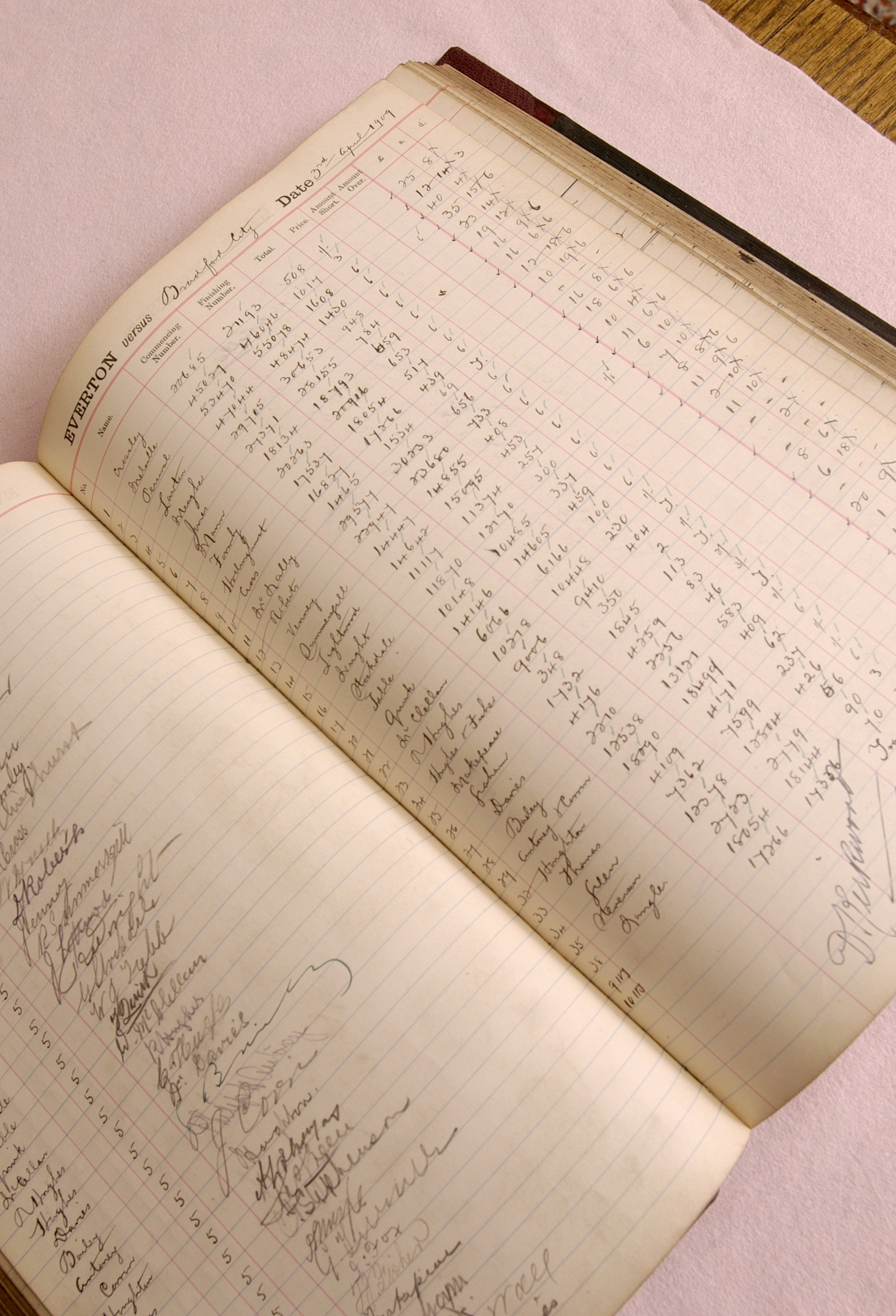 A page from an Everton gatebook showing the gate receipts from a match at Goodison Park against Bradford City on 3 April 1909